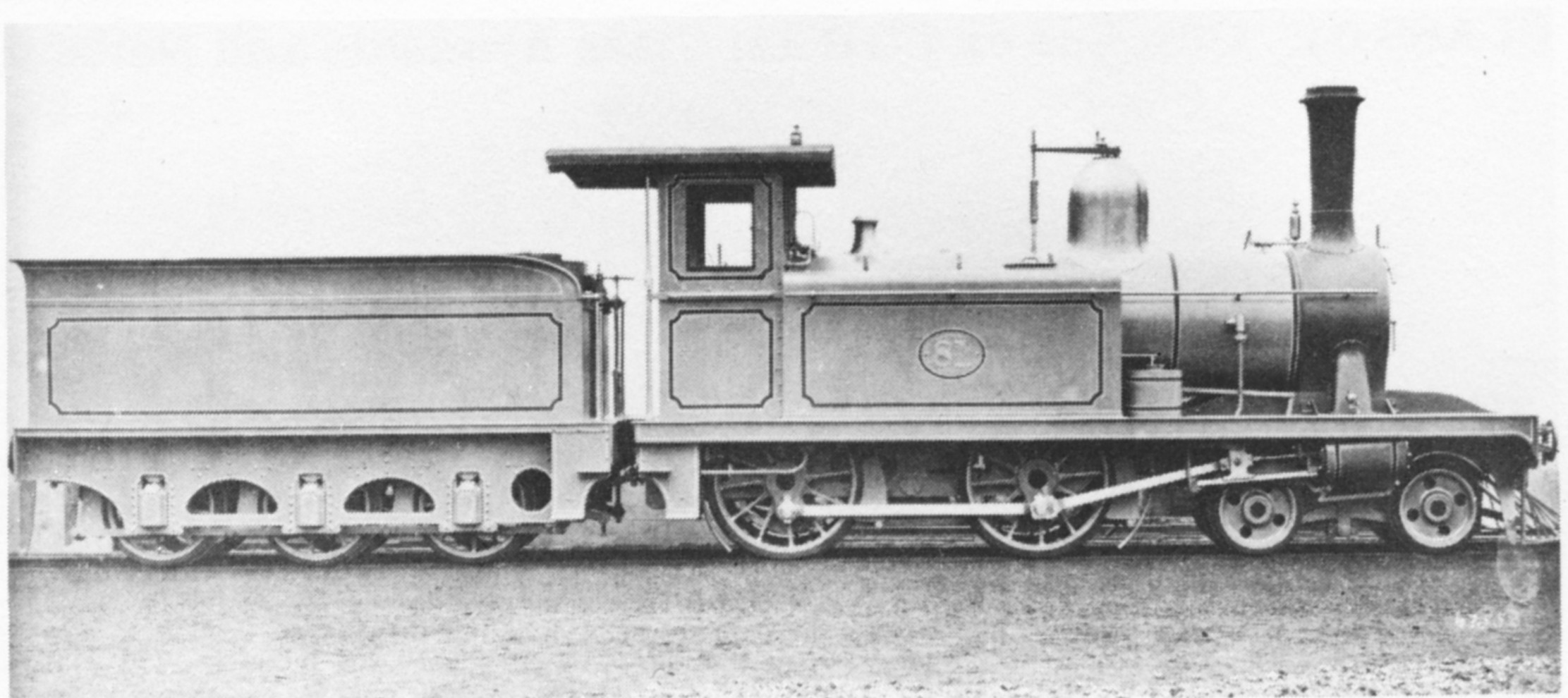 Cape Government Railways 1st Class 4-4-0TT (1875-1881 group)